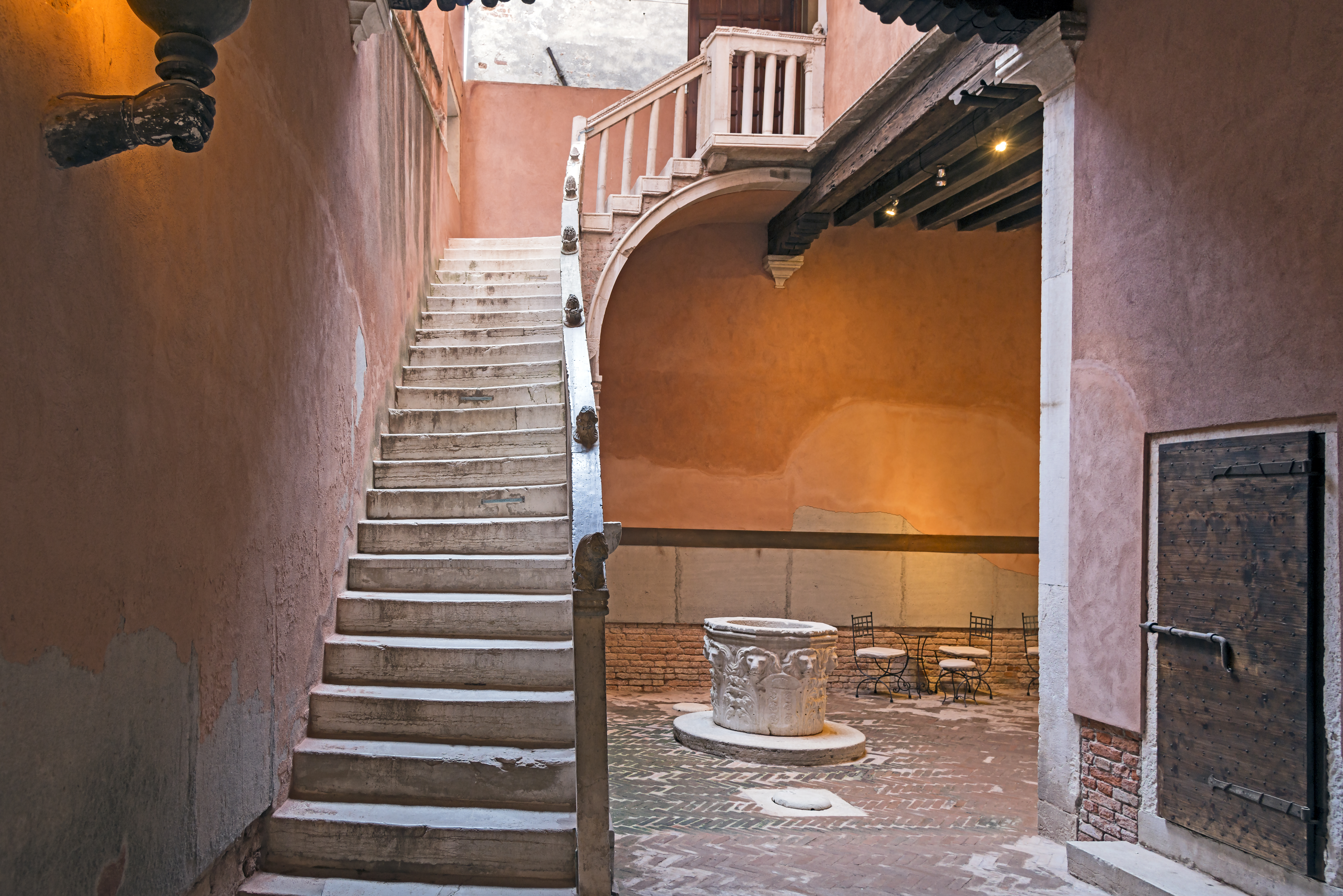 Palazzo Centani in Venice - Birthplace of Carlo Goldoni. The staircase, the courtyard and the well.